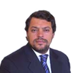 Dario Molina